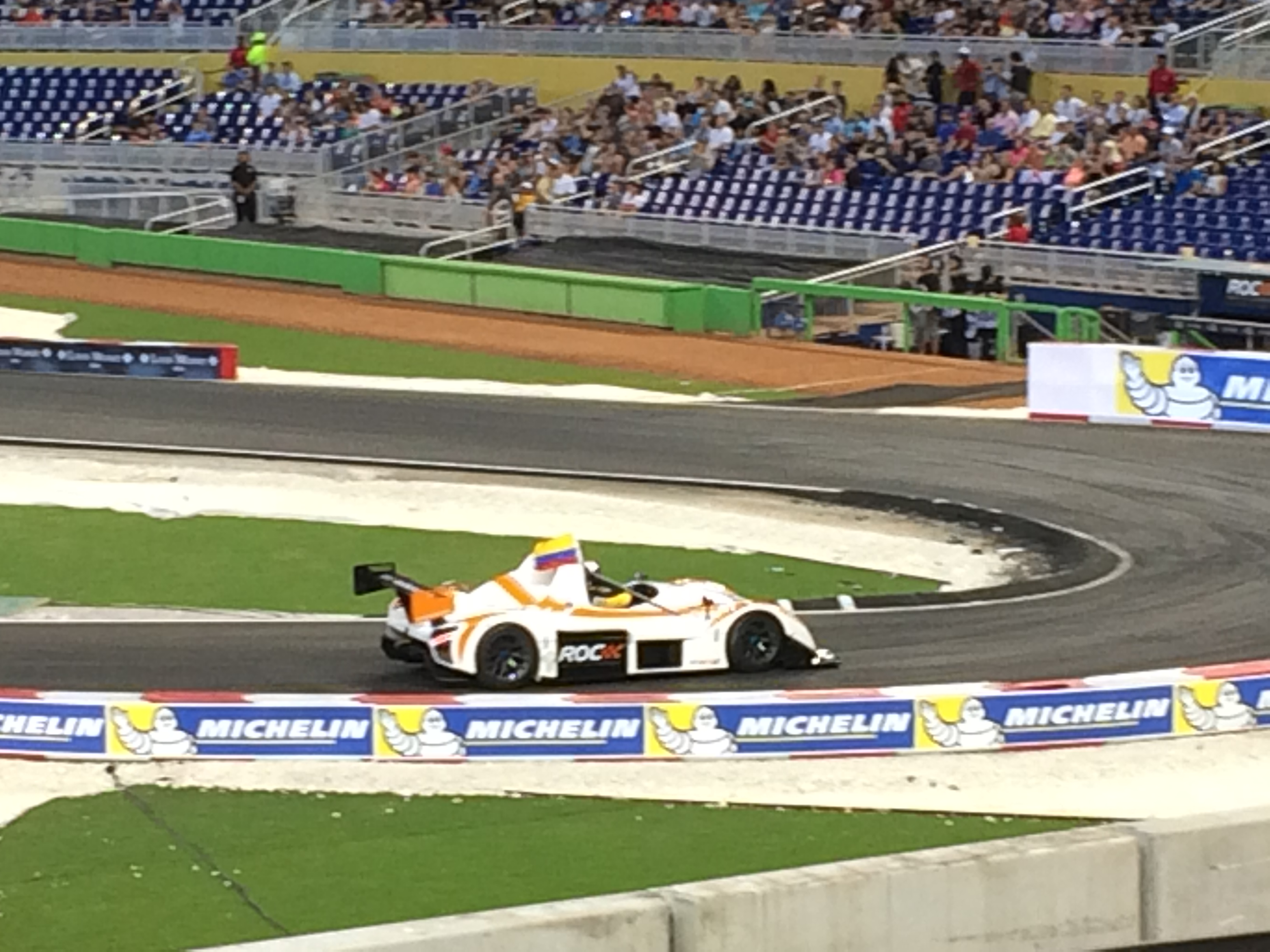 2017 Race of Champions - Saturday, January 21